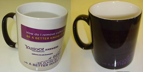 Yahoo! Answers heat sensitive color changing cup awarded to users for taking part in Yahoo Answers